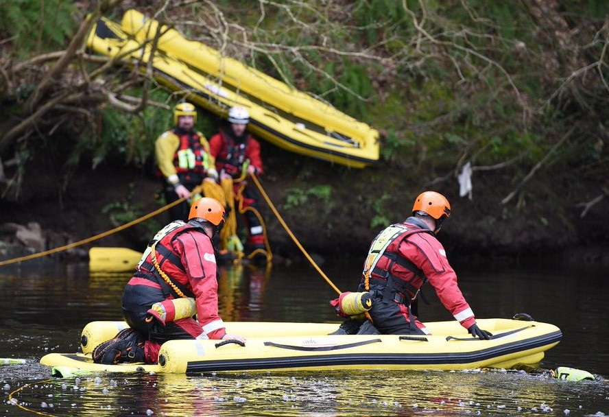 Cork City Civil Defence conducting swiftwater training